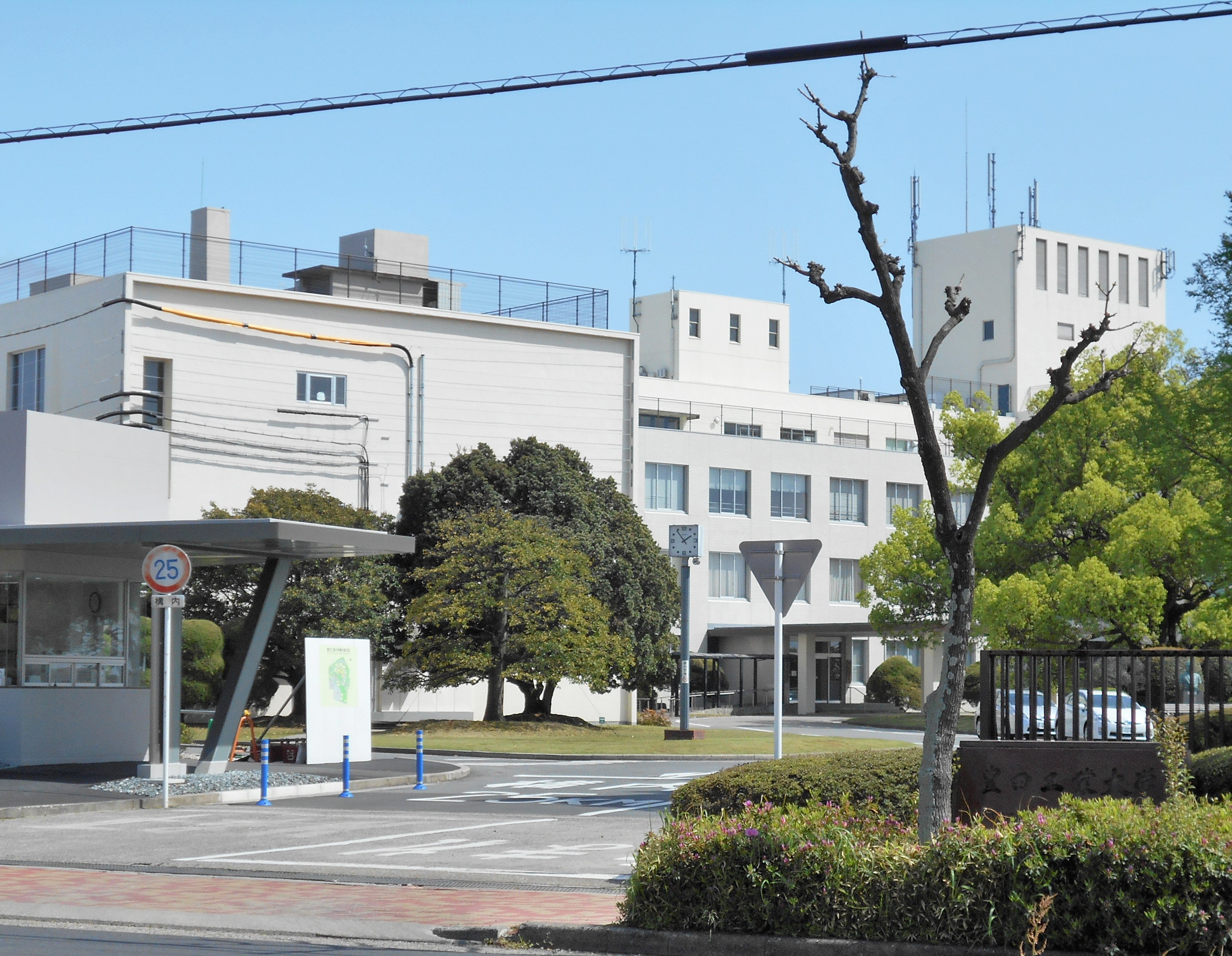 Toyota Technological Institute, located in Tenpaku-ku, Nagoya City, Aichi Pref., Japan.